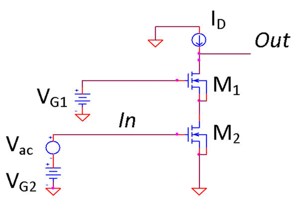 Idealized MOS cascode amplifier Category:Electrical diagrams Image:MOSFET Cascode.png